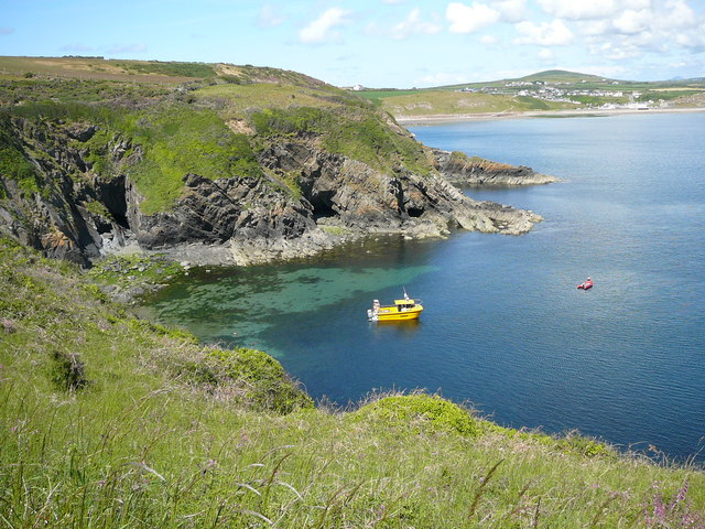 Porth Meudwy near Aberdaron This bay is the departure point for boats to Bardsey Island